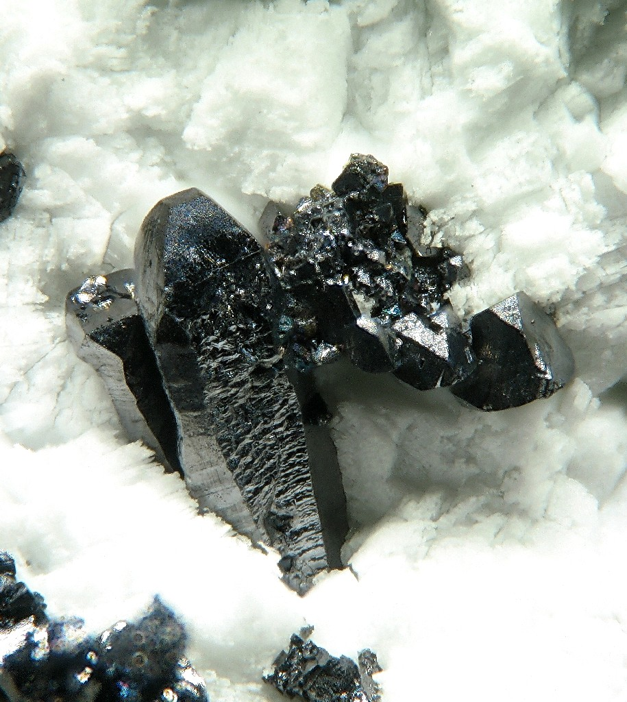 Villamanínite Locality: Providencia Mine, Cármenes, León, Castile and Leon, Spain Picture width 1.5 mm. Collection and photograph Christian Rewitzer